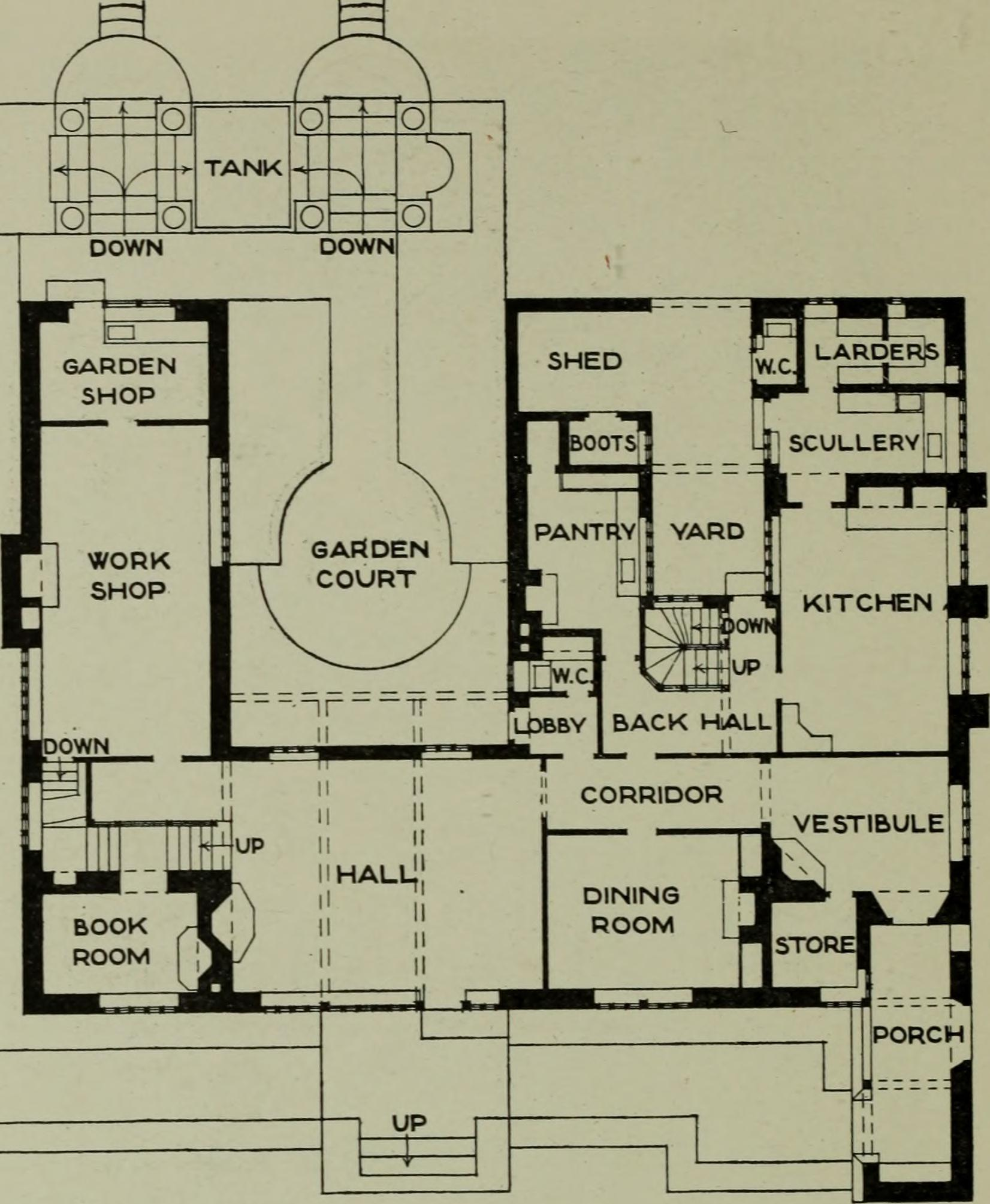 Illustration of Munstead Wood, Godalming, Surrey in "Lutyens houses and gardens" (1921).